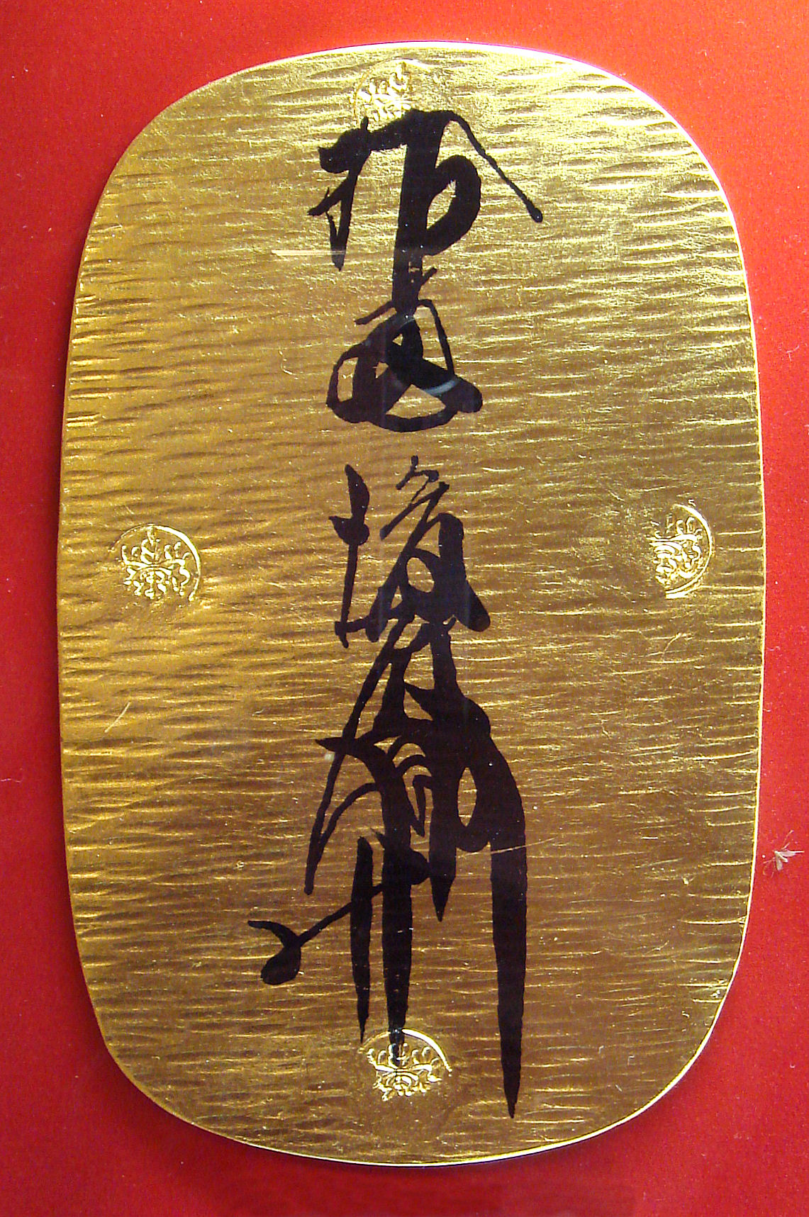 Keicho_Oban_1601